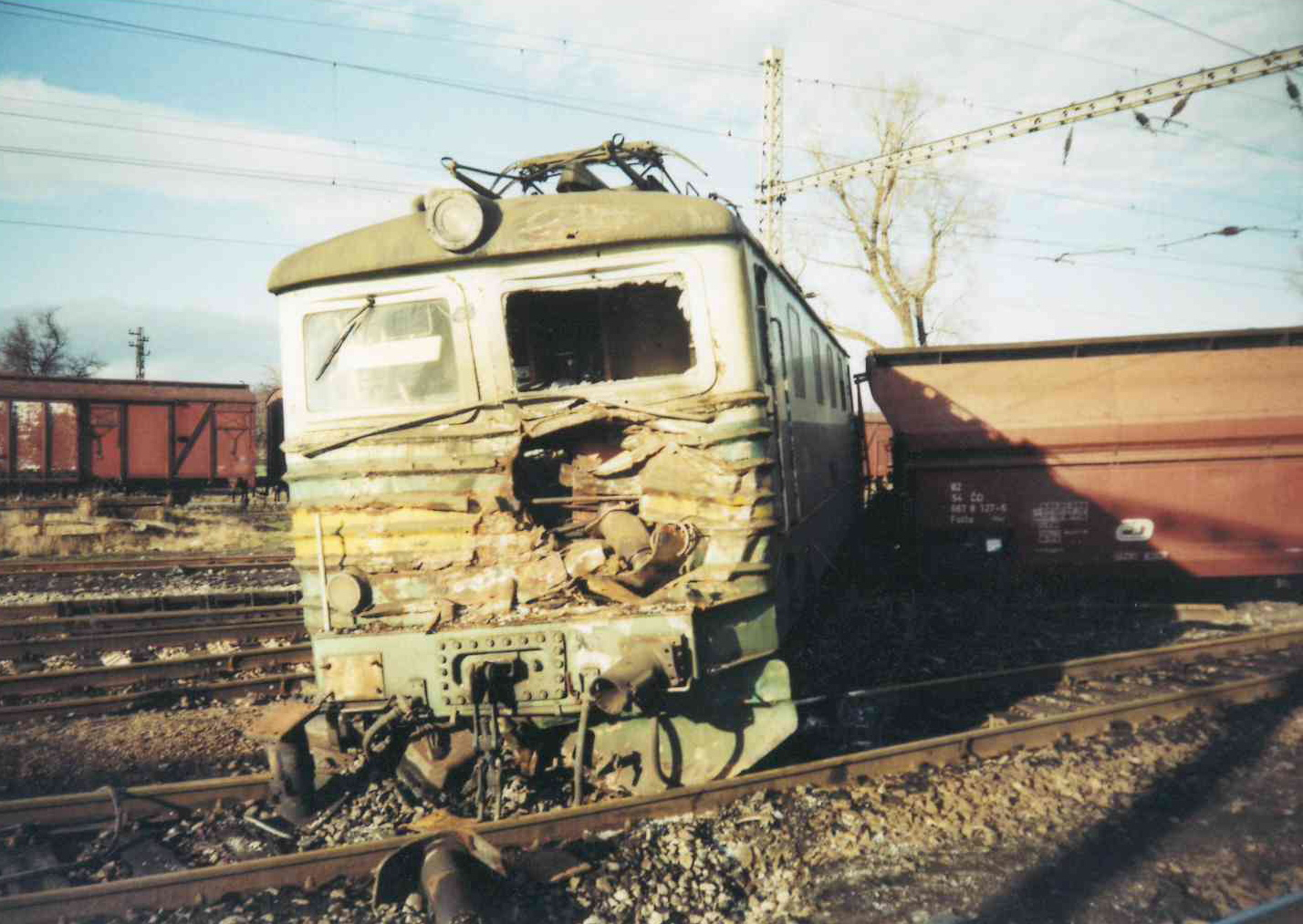 121.085 locomotive after the accident in Všetaty